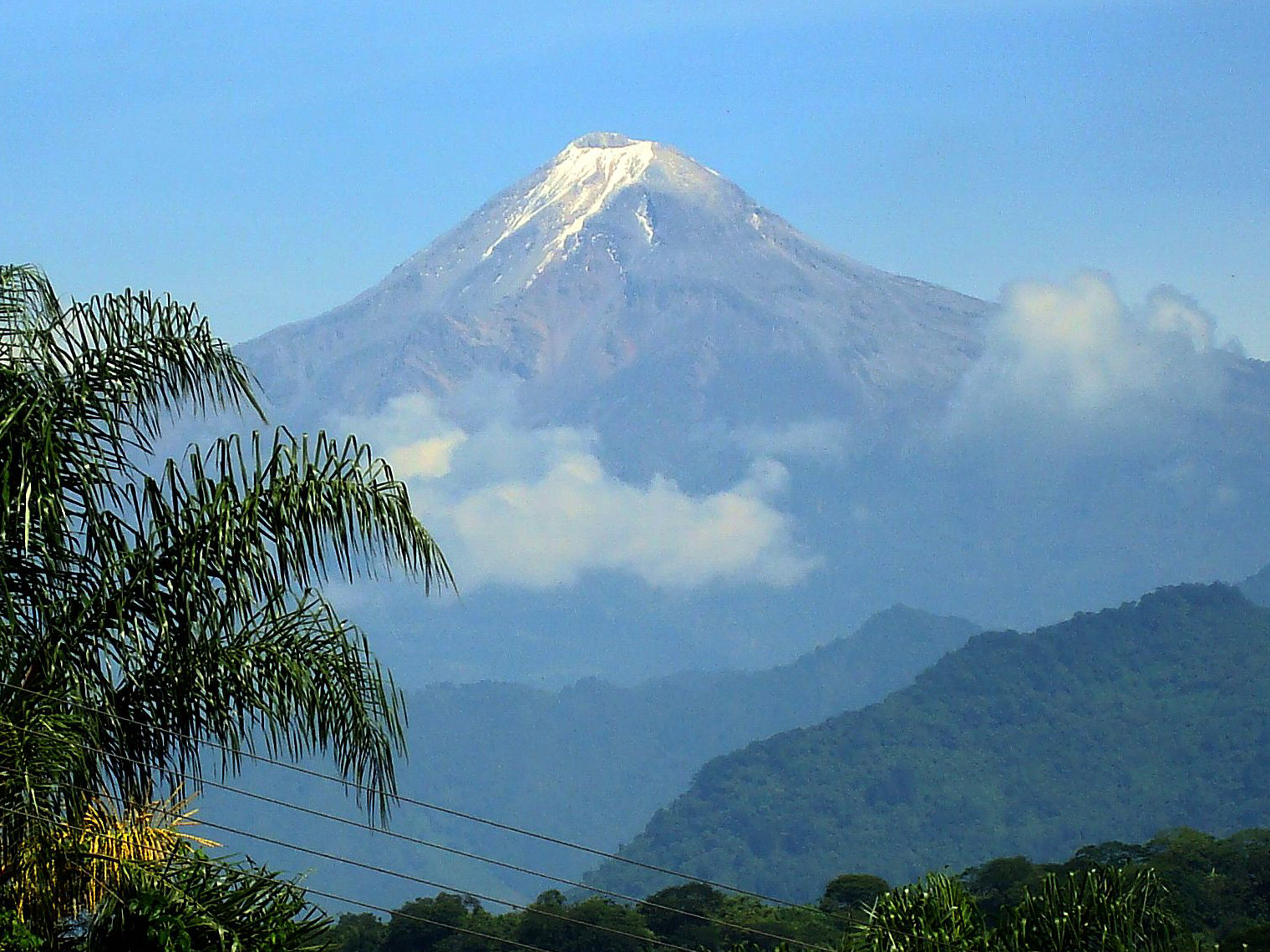 Picture of the Pico de Orizaba, looking northwest from Fortín de las Flores, Veracruz